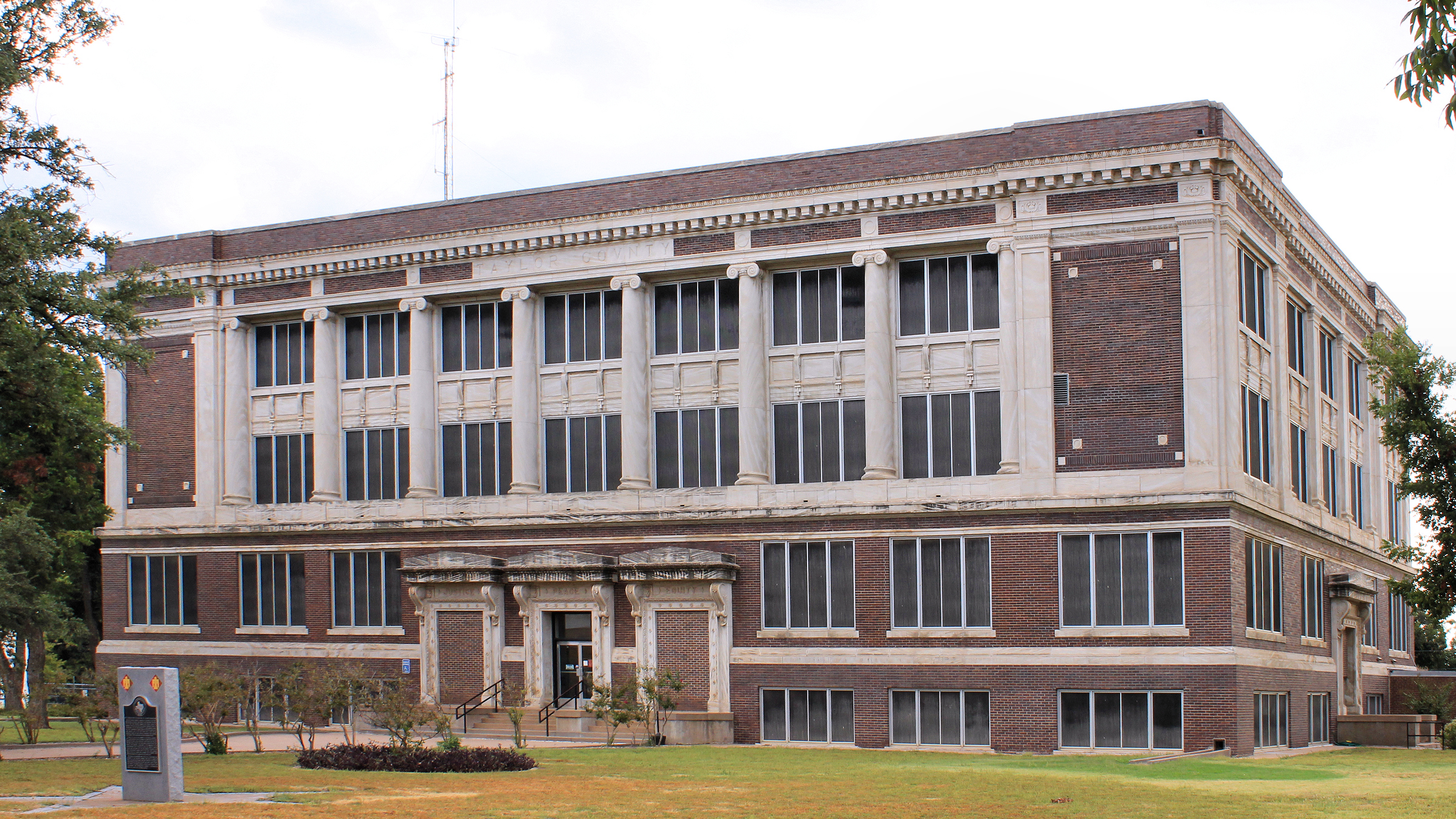 The former courthouse for Taylor County in Abilene, Texas, United States was built in 1915. The building was listed on the National Register of Historic Places on March 23, 1992.